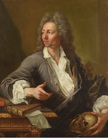 Portrait of a man meditating on a skull